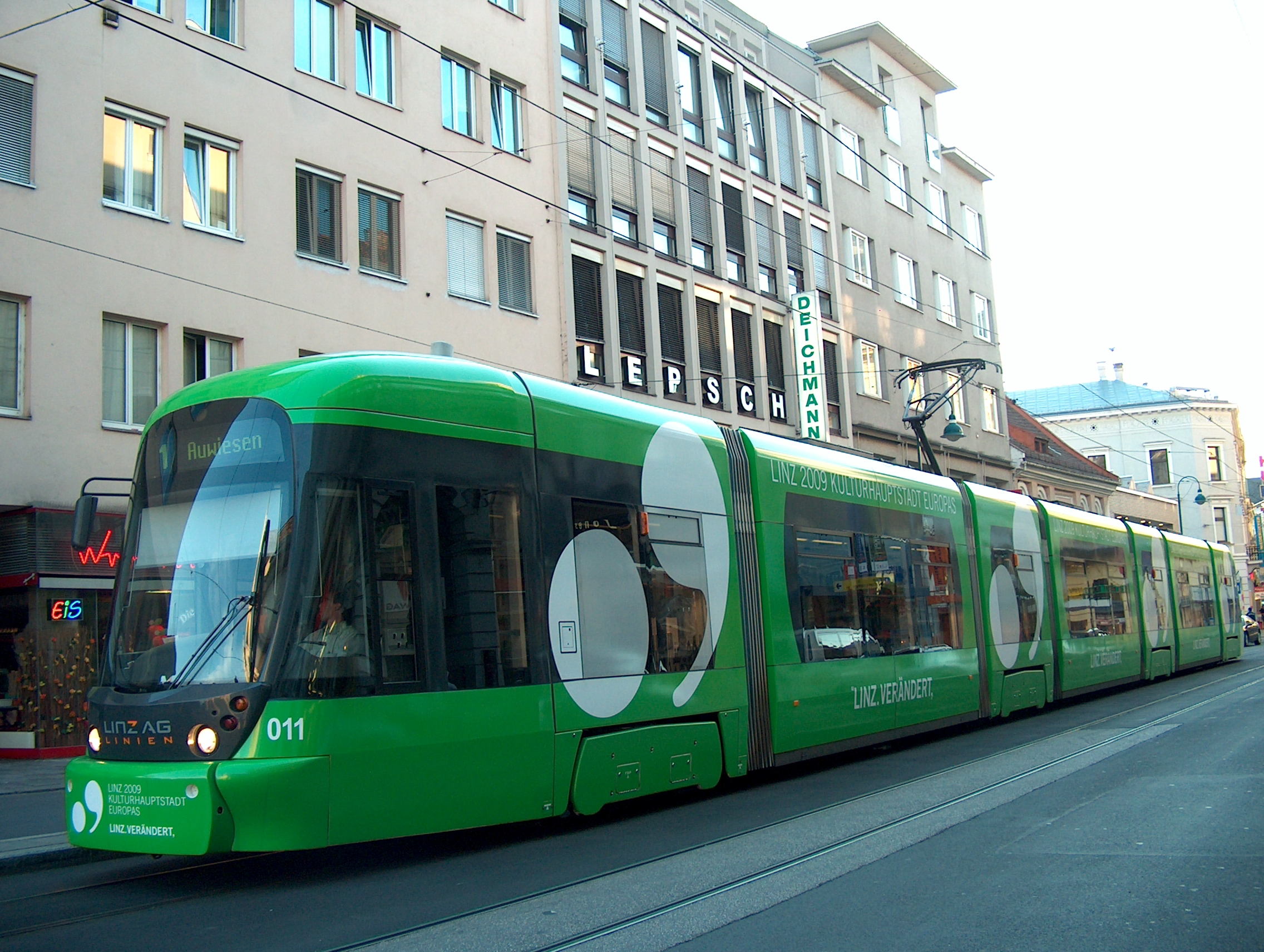 Linz - The European Capital of Culture in 2009 - Tram